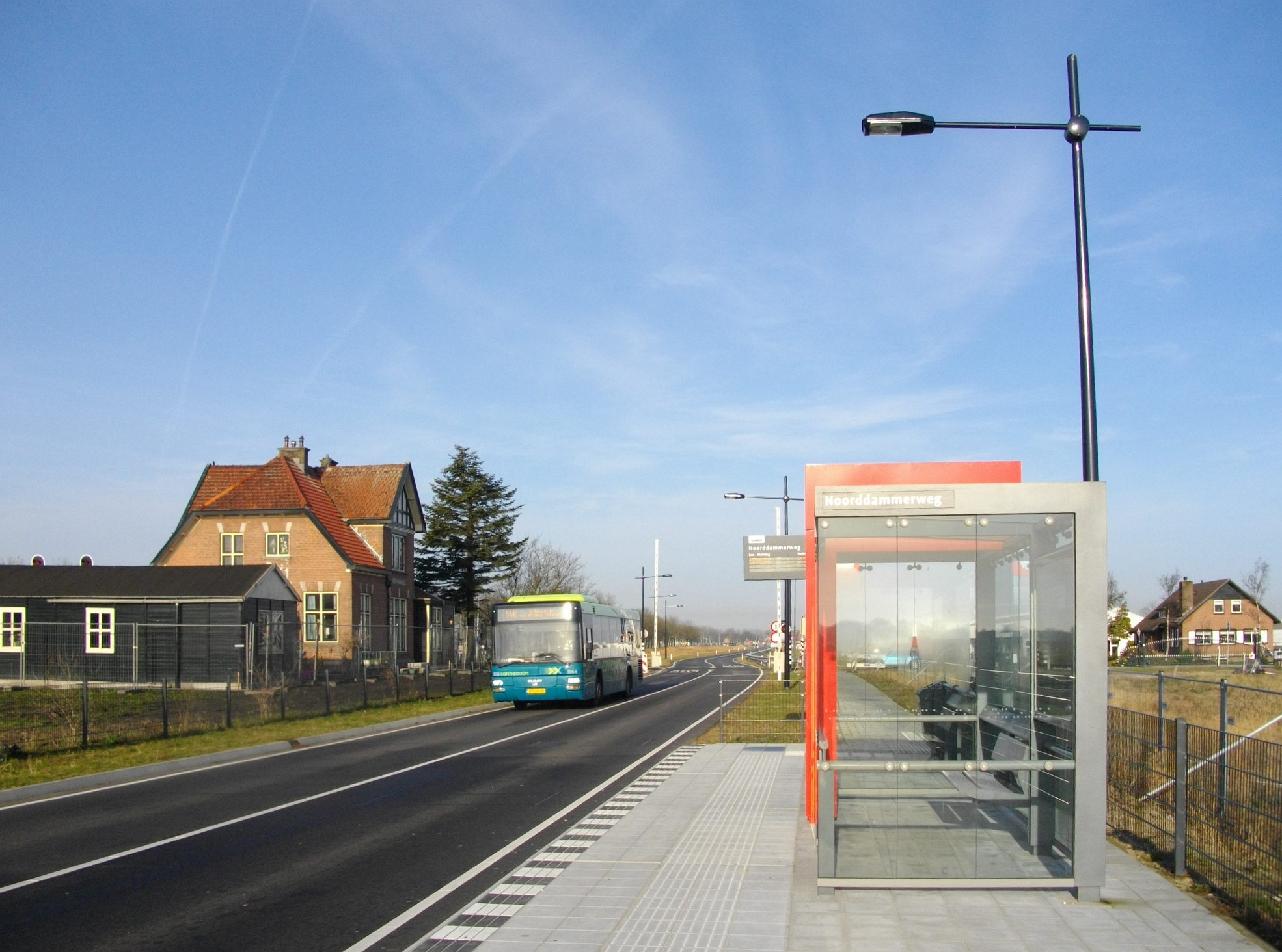 Bus lane on track of former railway line between Aalsmeer and Uithoorn, near former railway halte of De Kwakel, the Netherlands.